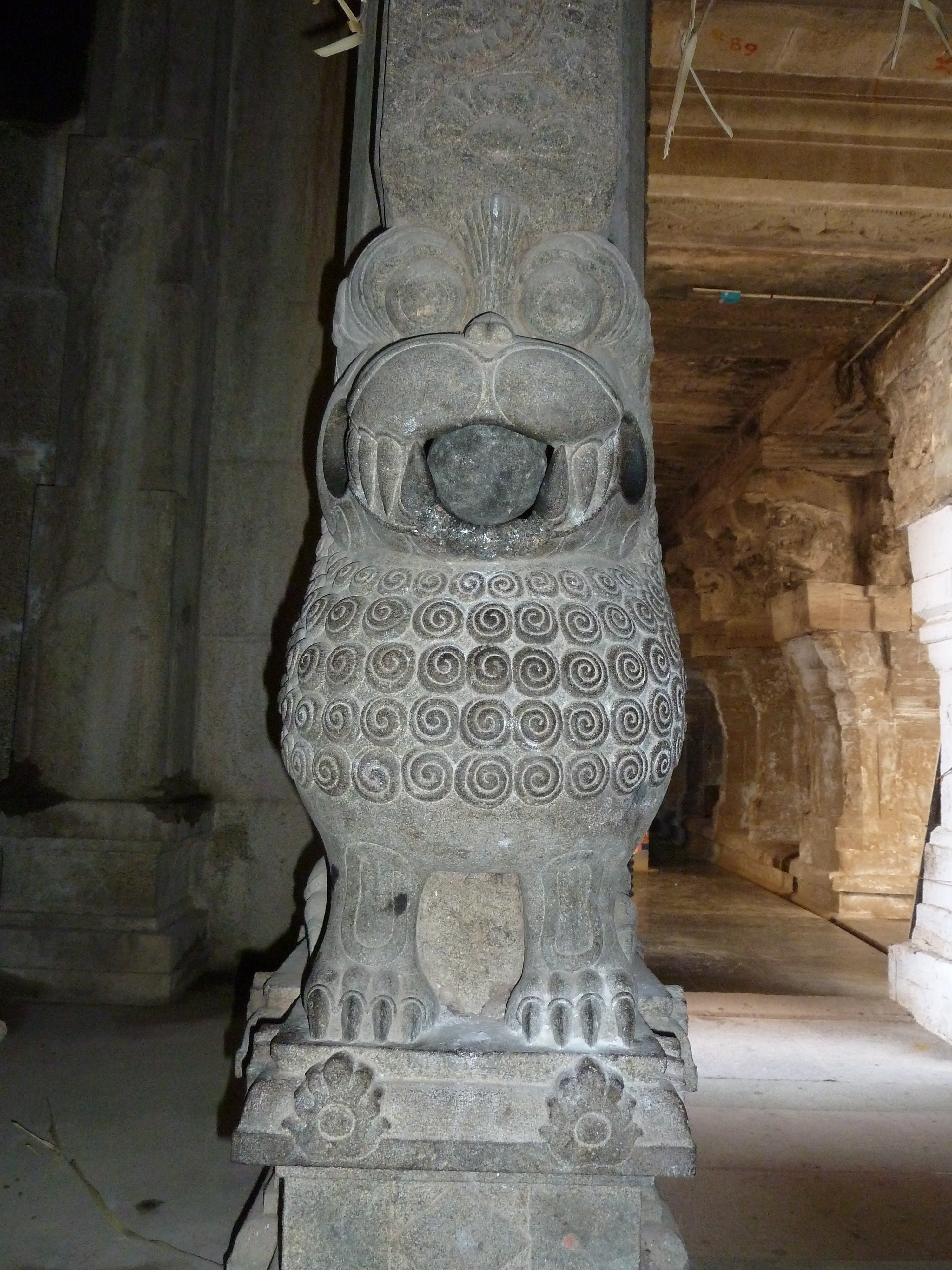 Yali with ball found in the temple at Uthirakosamangai